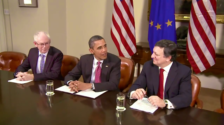 (Left to right) European Council President Herman van Rompuy, U.S. President Barack Obama and European Commission President José Manuel Barroso during the U.S.-EU Summit at the White House on November 28, 2011